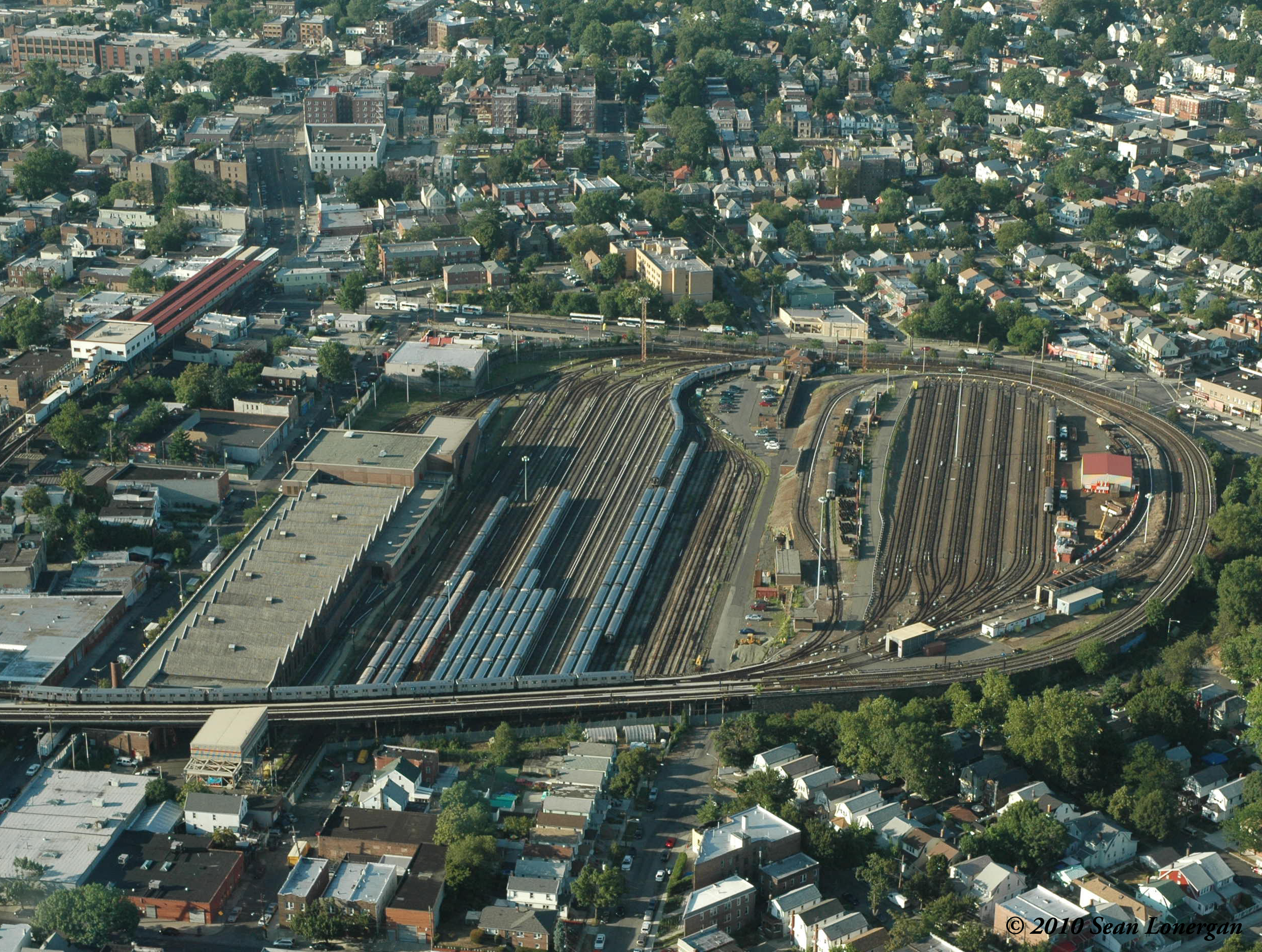 239th Street Yard, NYC IRT Subway, Summer, 2010.